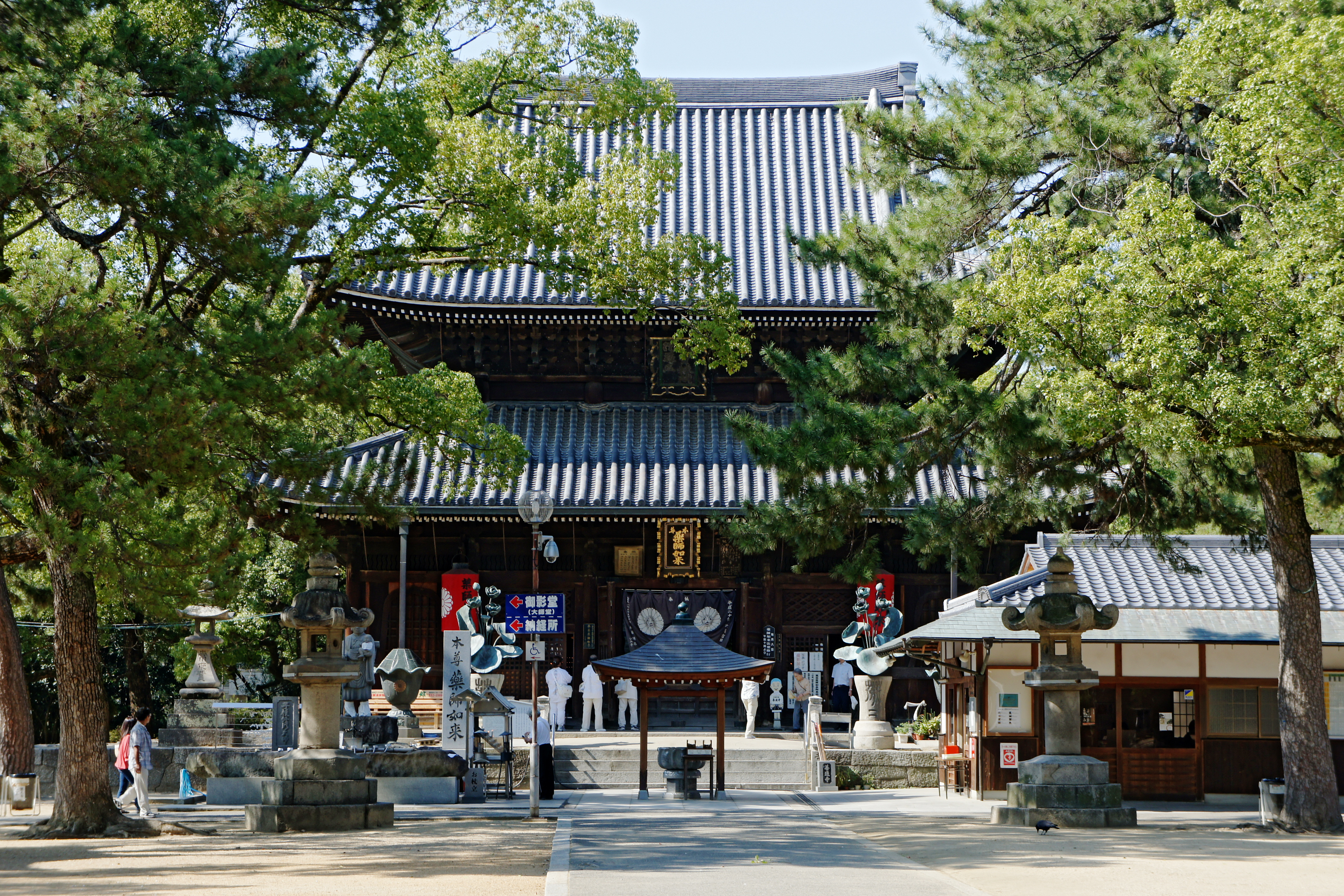 Golden Hall of Zentsu-ji in Zentsuji, Kagawa prefecture, Japan.